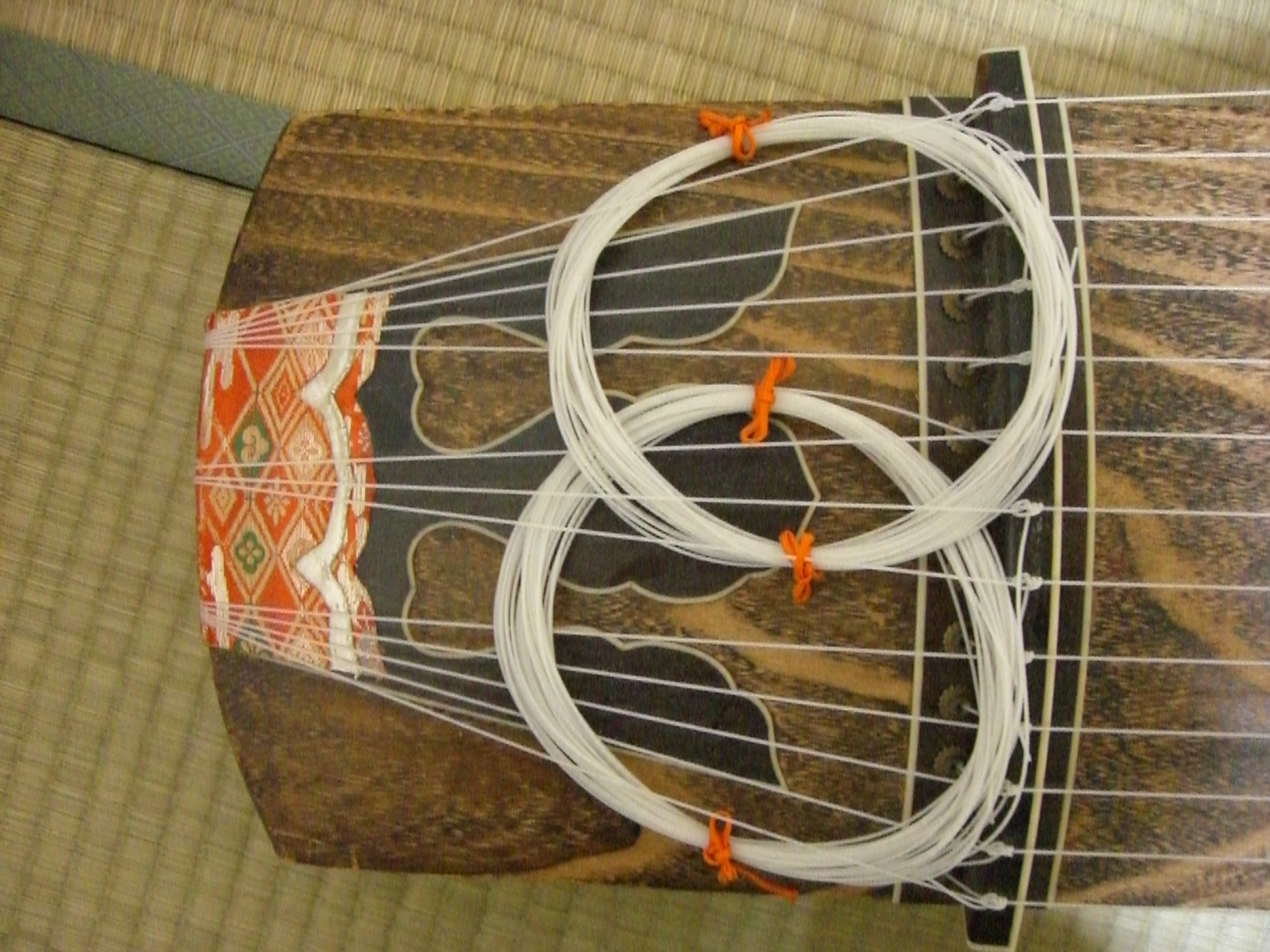 Ryubi of Japanese Koto (sou). Three leafs of kashiwaba decor are clearly visible